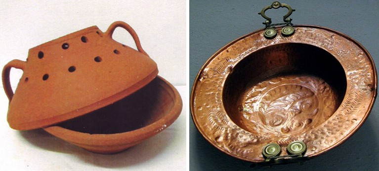 Image on the left: Brazier of ceramics (pottery), made by Juan Ramos Padilla in Arroyo de la Luz (Cáceres, Spain). Part of the Museum of ceramics of Chinchilla Montearagón. Image on the right: metal Brazier. Parent image in Wikimedia Commons.